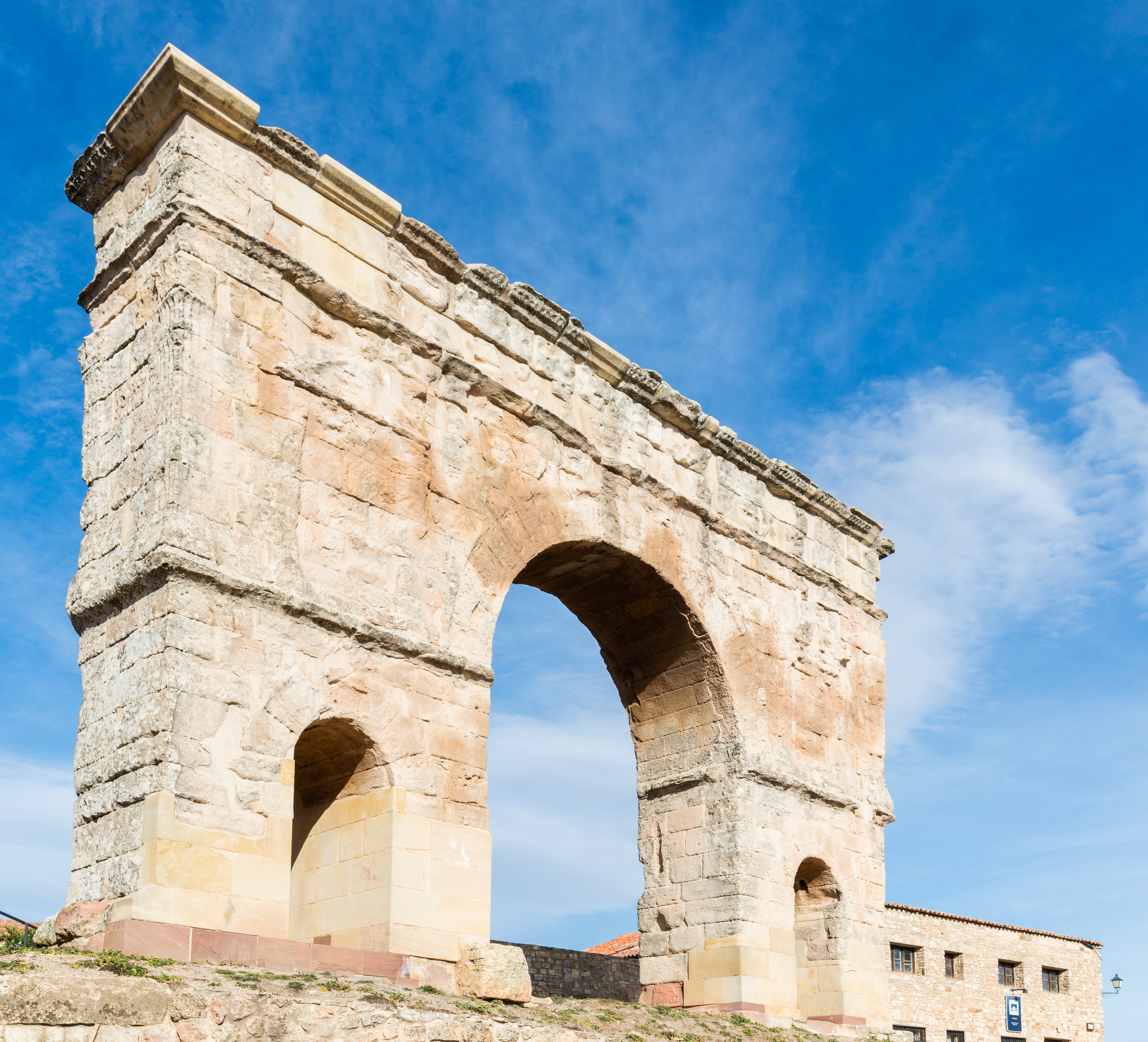 Ancient roman arch, Medinaceli, Soria, Spain